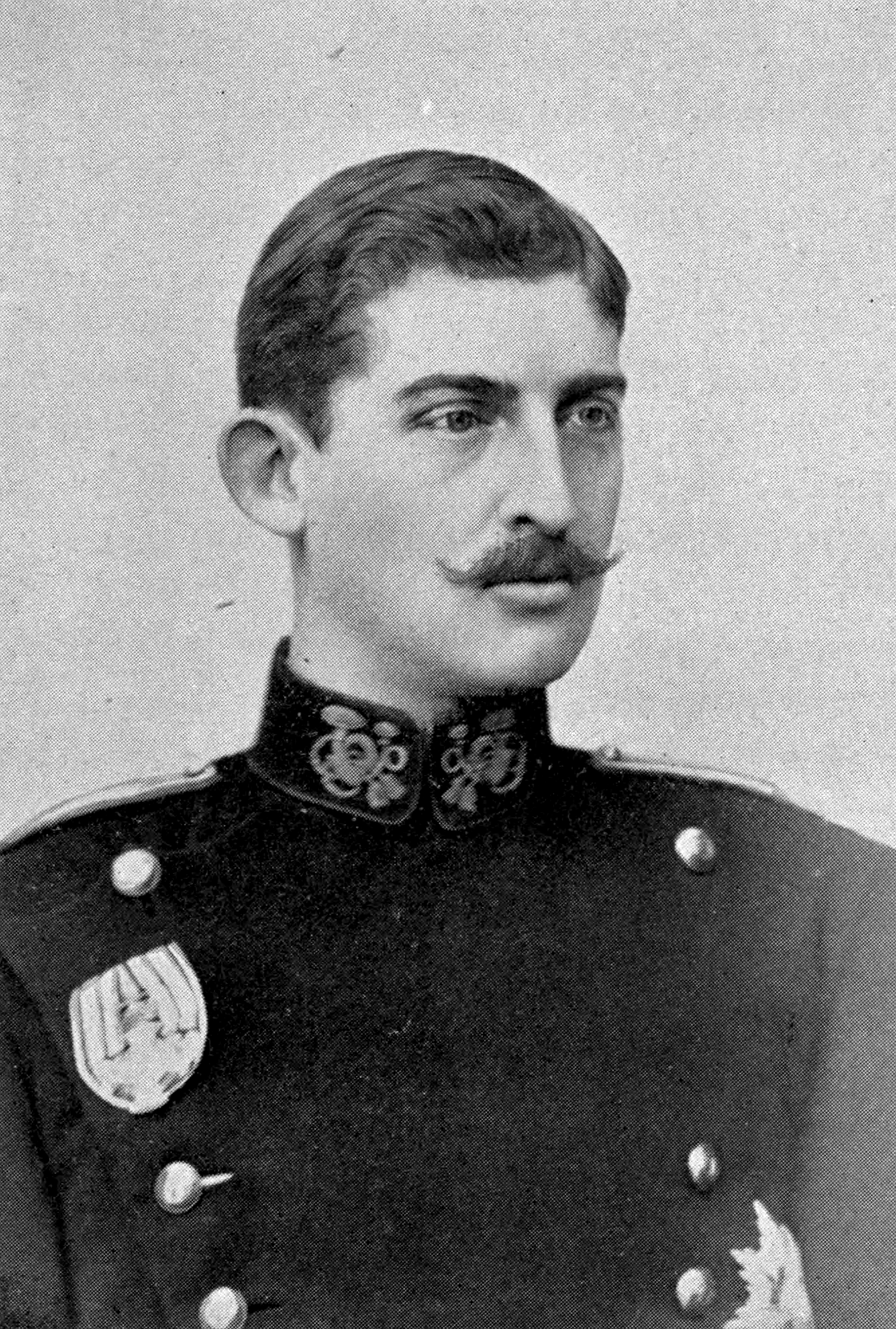 Ferdinand I of Romania